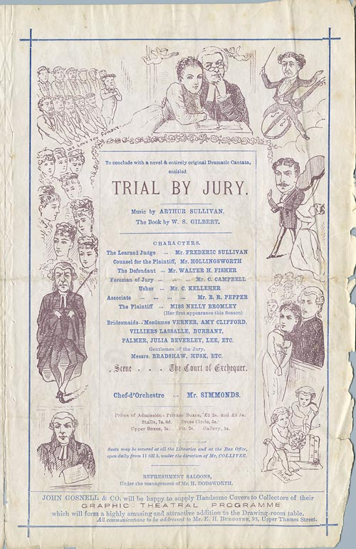 Page three of the programme for the original run of Trial by Jury. While La Perichole was the main production, Trial by Jury got this lavishly illustrated page.